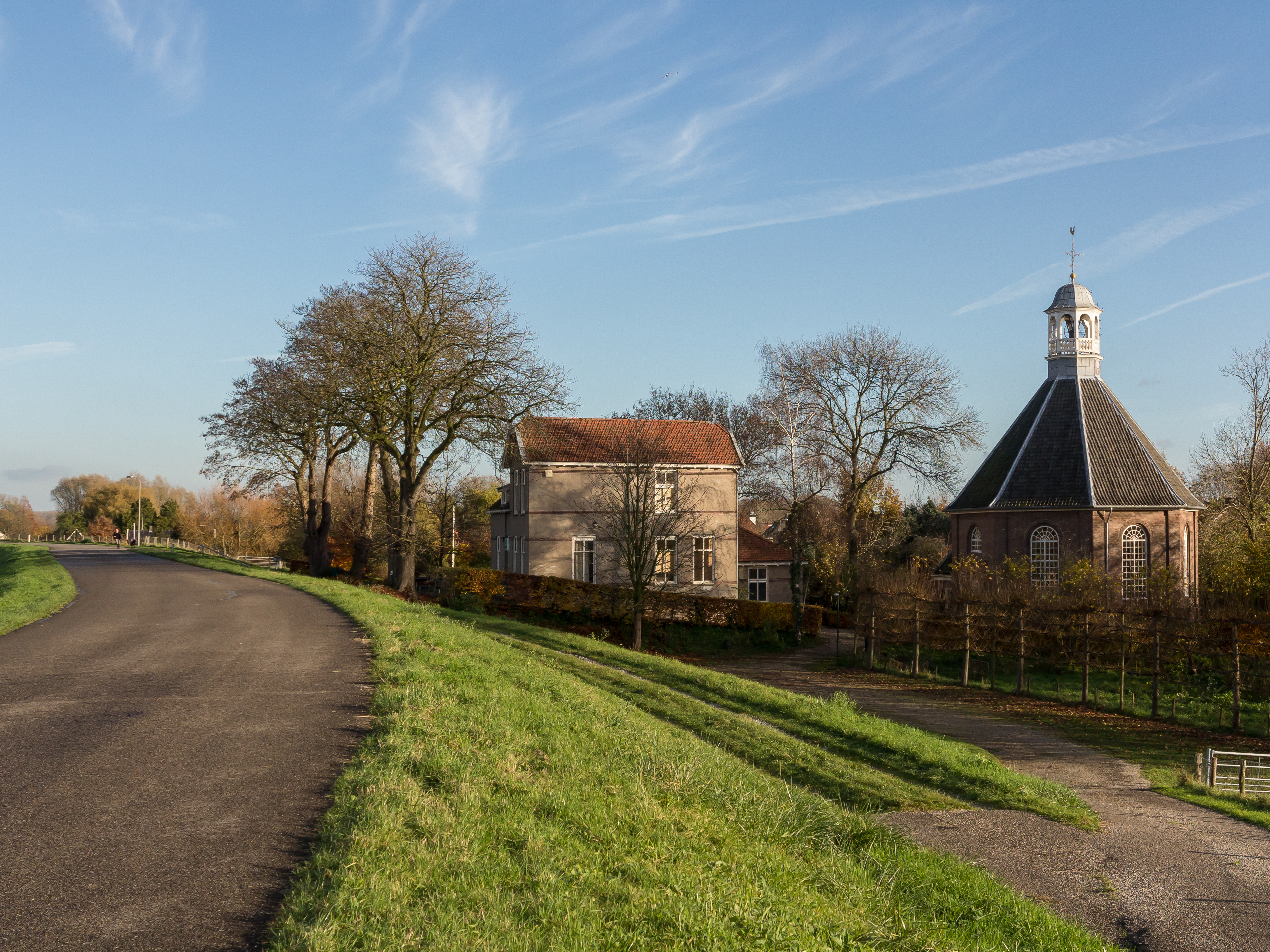 Boven-Leeuwen, reformed church in the street